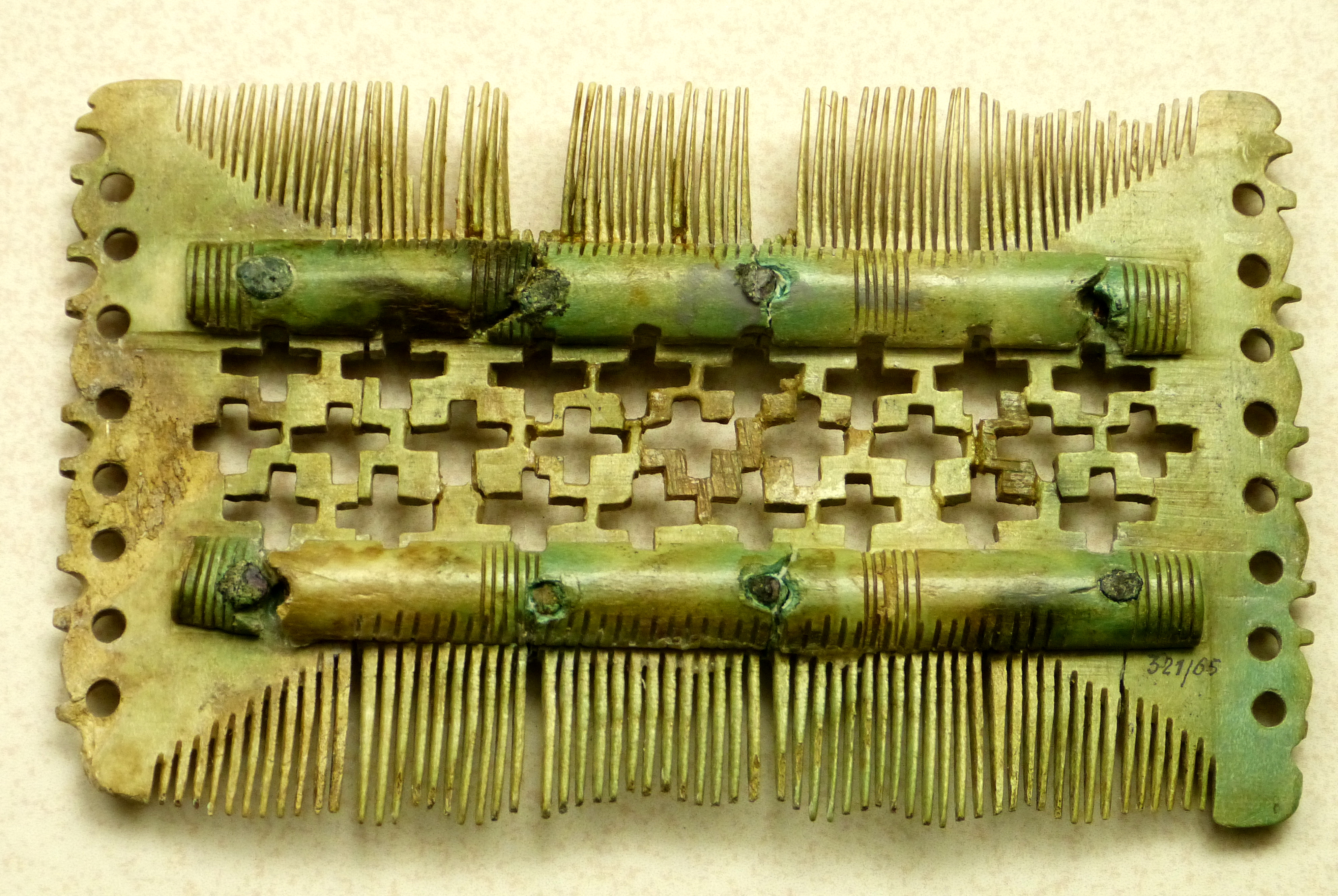 Weimar ( Thuringia ). Museum for Prehistory in Thuringia: Ancient Germanic bone comb.